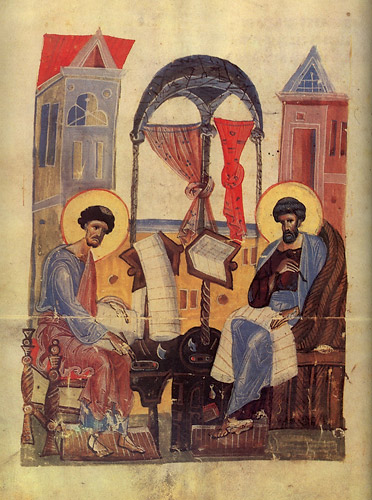 Luke and Mark the Evangelists. A miniature from the Saviour (Spassky) Gospels, Yaroslavl.